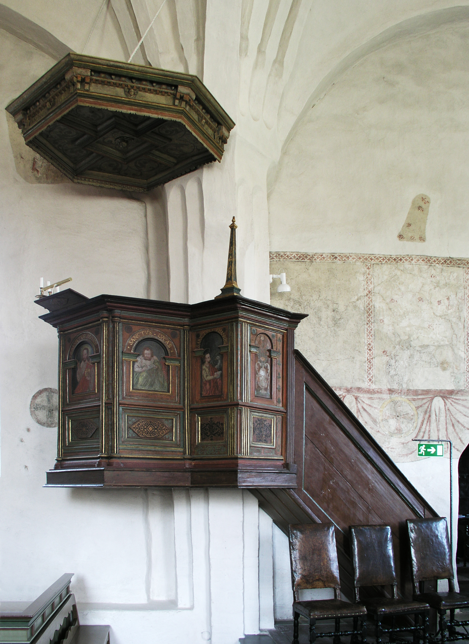 Åkers kyrka/The church of Åker, Diocese of Strängnäs, Sweden. Pulpit.